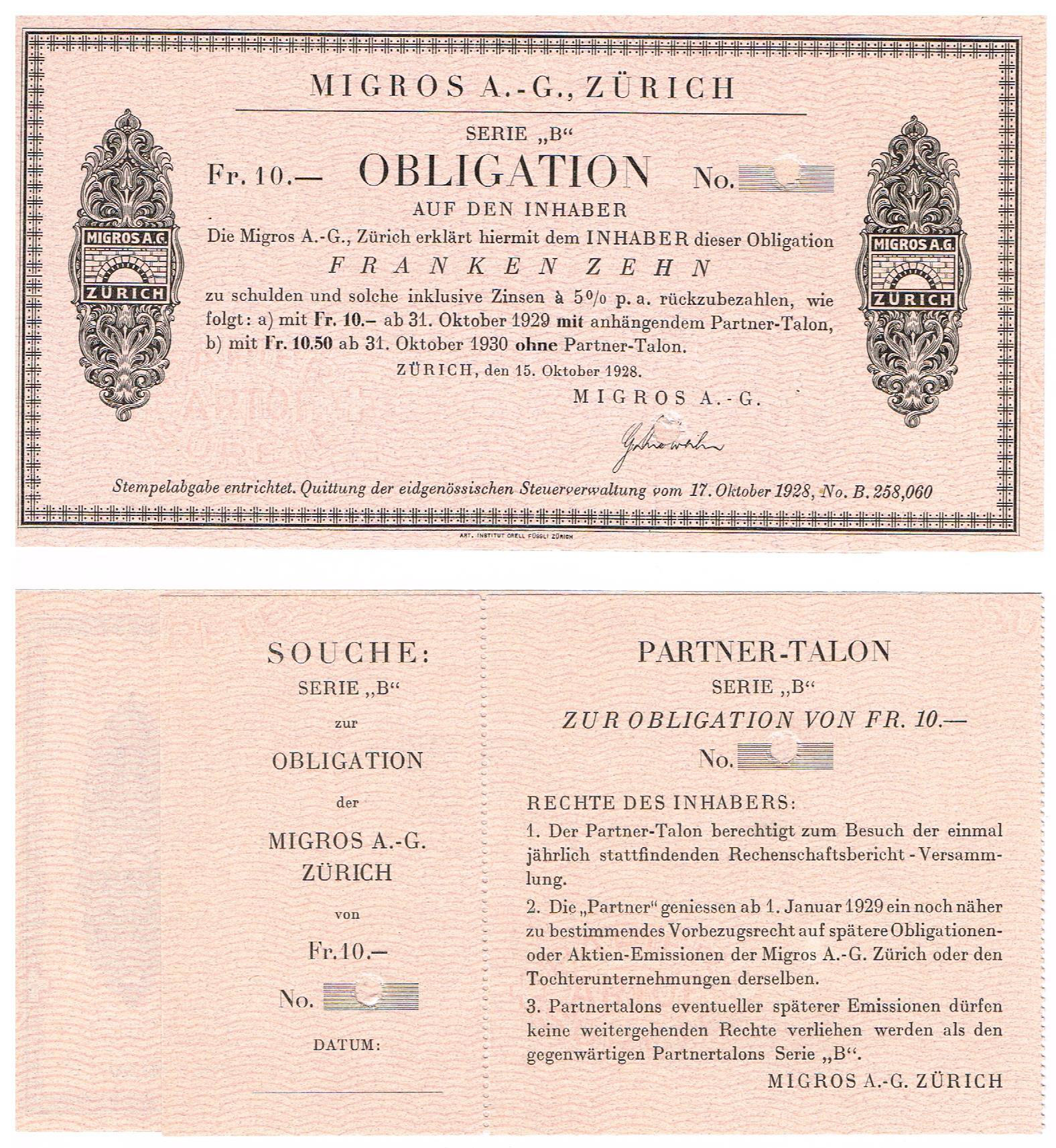 Obligation of the Migros AG with attached partner talon, issued 15. October 1928